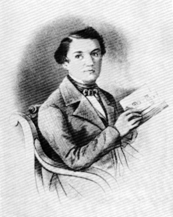 Dmitry Lensky (1805-1860)